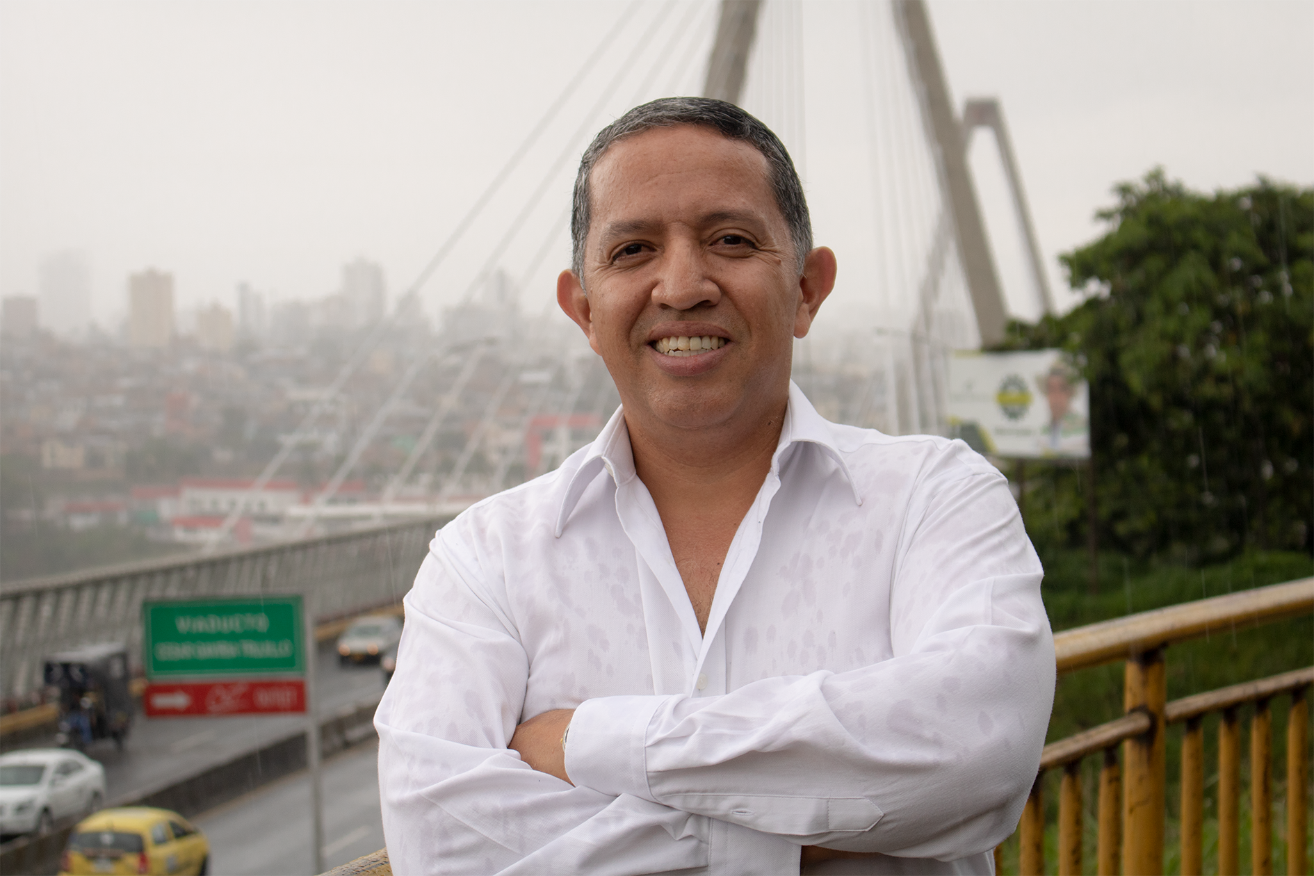 Picture of Ricardo Mora in Pereira viaduct, Colombia, "Viaducto de Pereira"